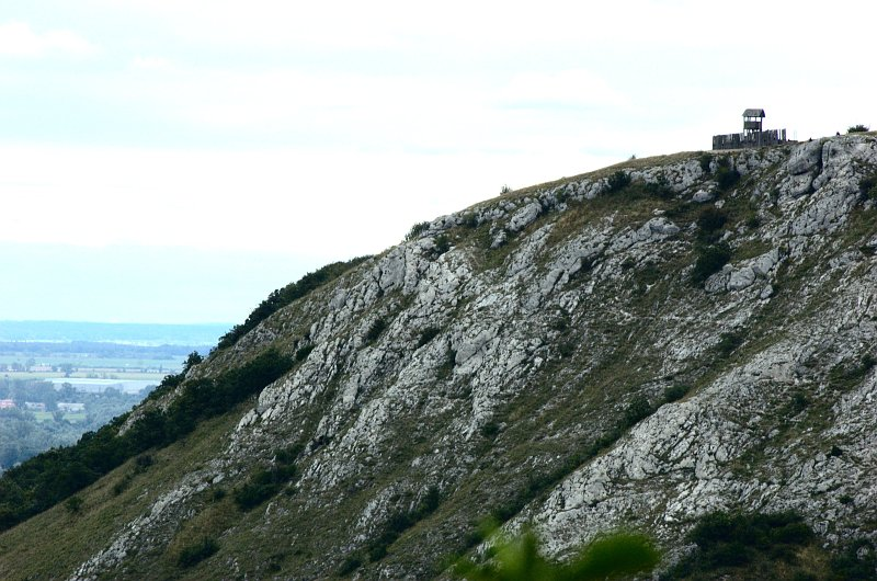 Braunsberg in Hainburg an der Donau, Lower Austria